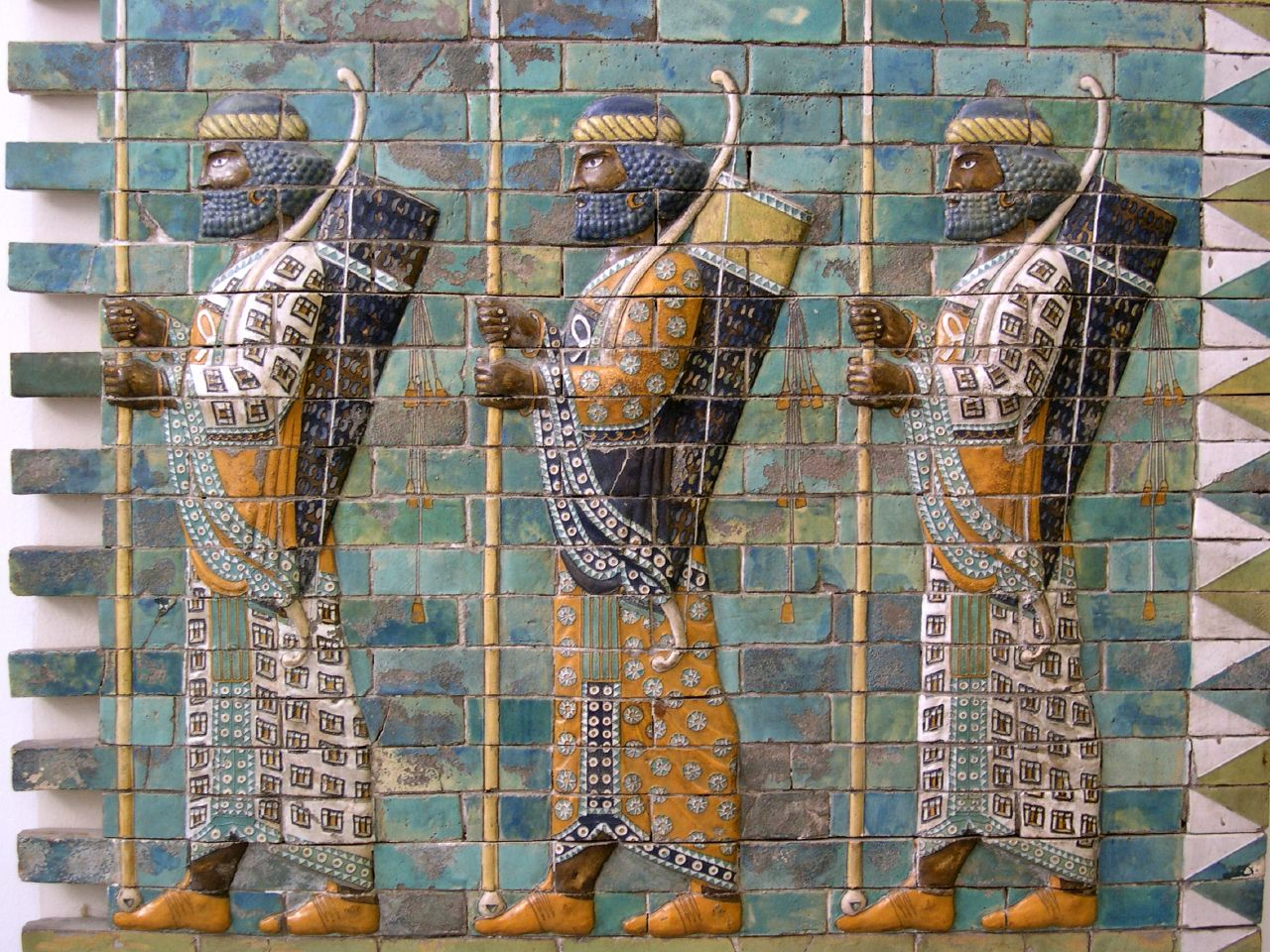 Persian warriors. Pergamon Museum/Vorderasiatisches Museum.